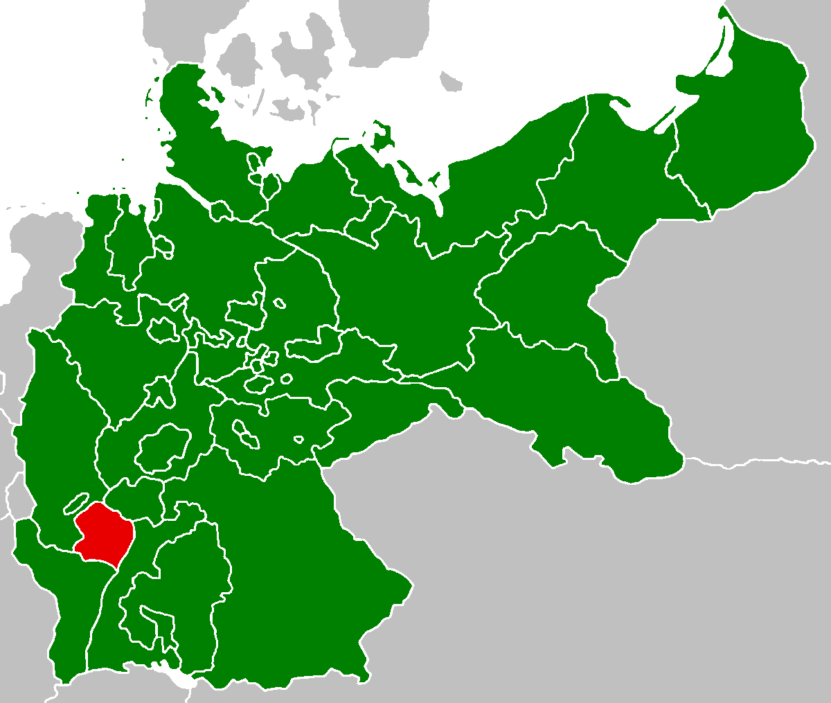 Pfalz in the German Empire